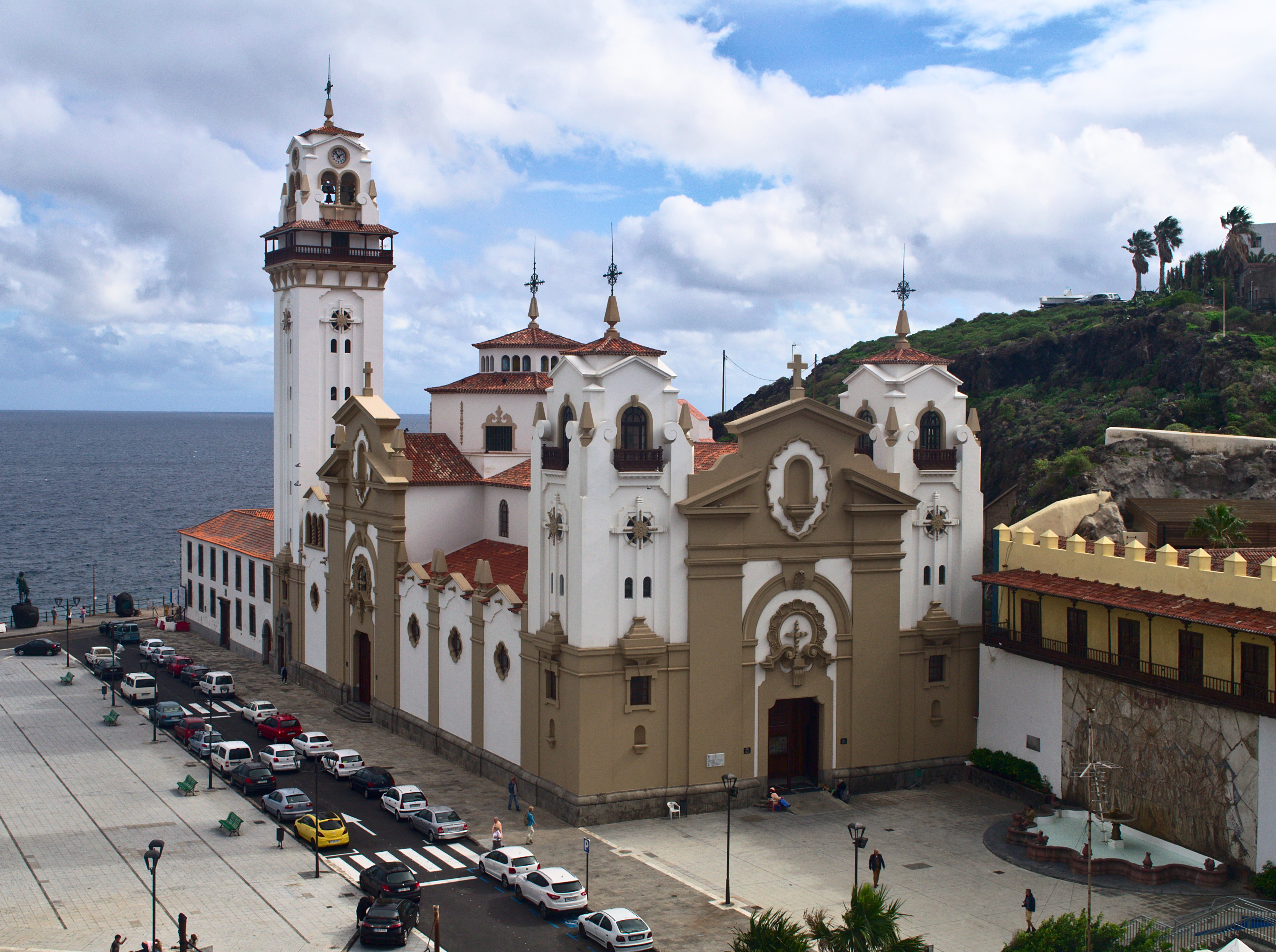 Basílica de Nuestra Señora de la Candelaria, Tenerife